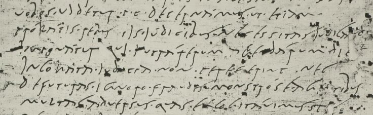 Papyrus fragment at Berlin containing portions of speeches delivered in the Senate, ascribed to the reign of Claudius, year 41 to 54, facsimile in F. Steffens, Lateinische Palaeographie, taf. 101, ed. 1906 (from J.E. Sandys, A Companion to Latin Studies, Cambridge, University Press, 1910, p. 768). uobis · ujdetur · p[atres] · c[onscripti] · décernám[us · ut · etiam] prólátis · rebus ijs · júdicibus · n[ecessitas · judicandj] imponátur quj · jntrá rerum [· agendárum · dies] jncoháta · judicia · non · per[egerint · nec] defuturas · ignoro · fraudes · m[onstrósa · agentibus] multas · aduersus · quas · exc[ogitáuimus]...